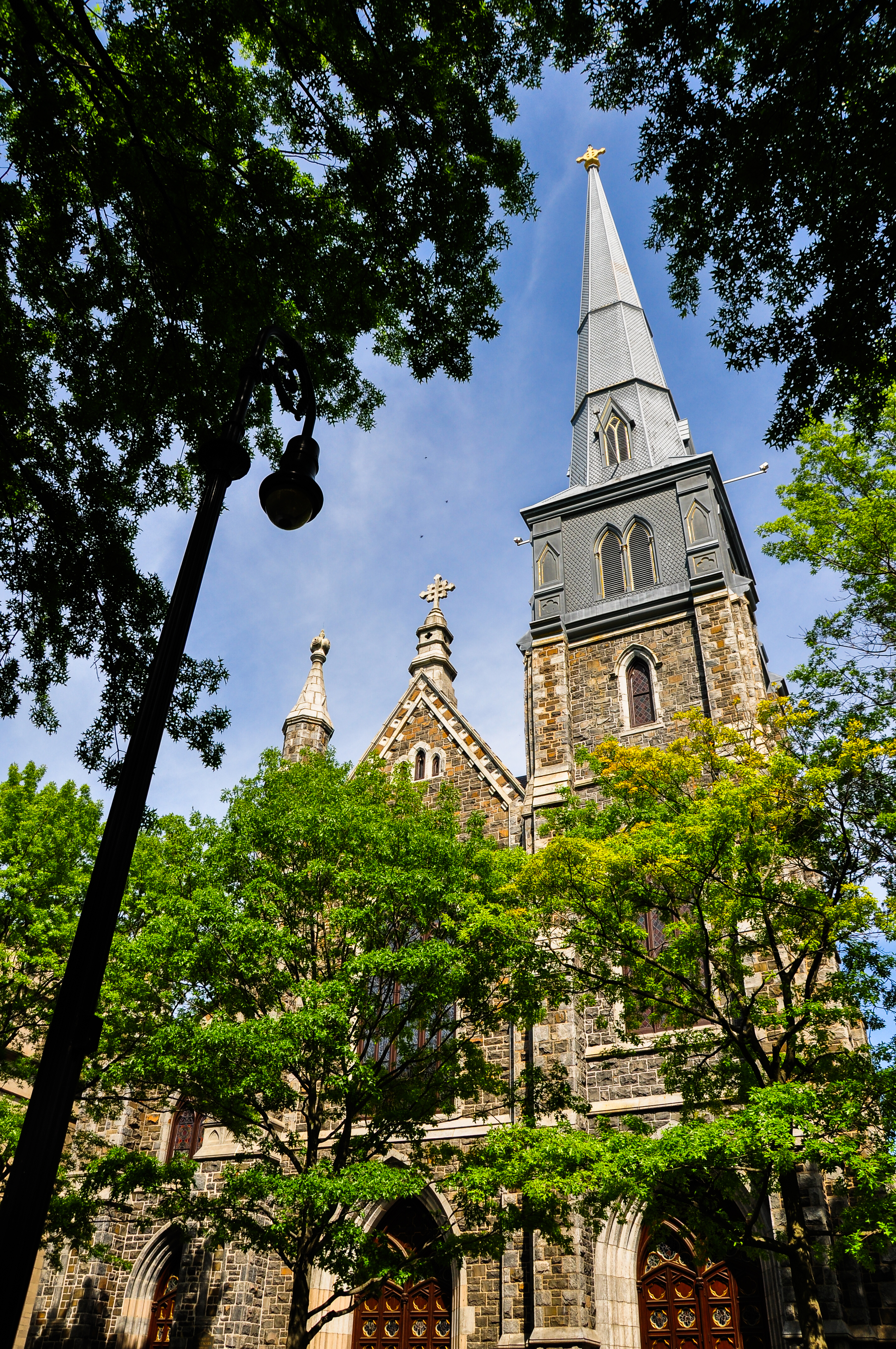 St. Mary's Church on Hillhouse Avenue, Yale University.